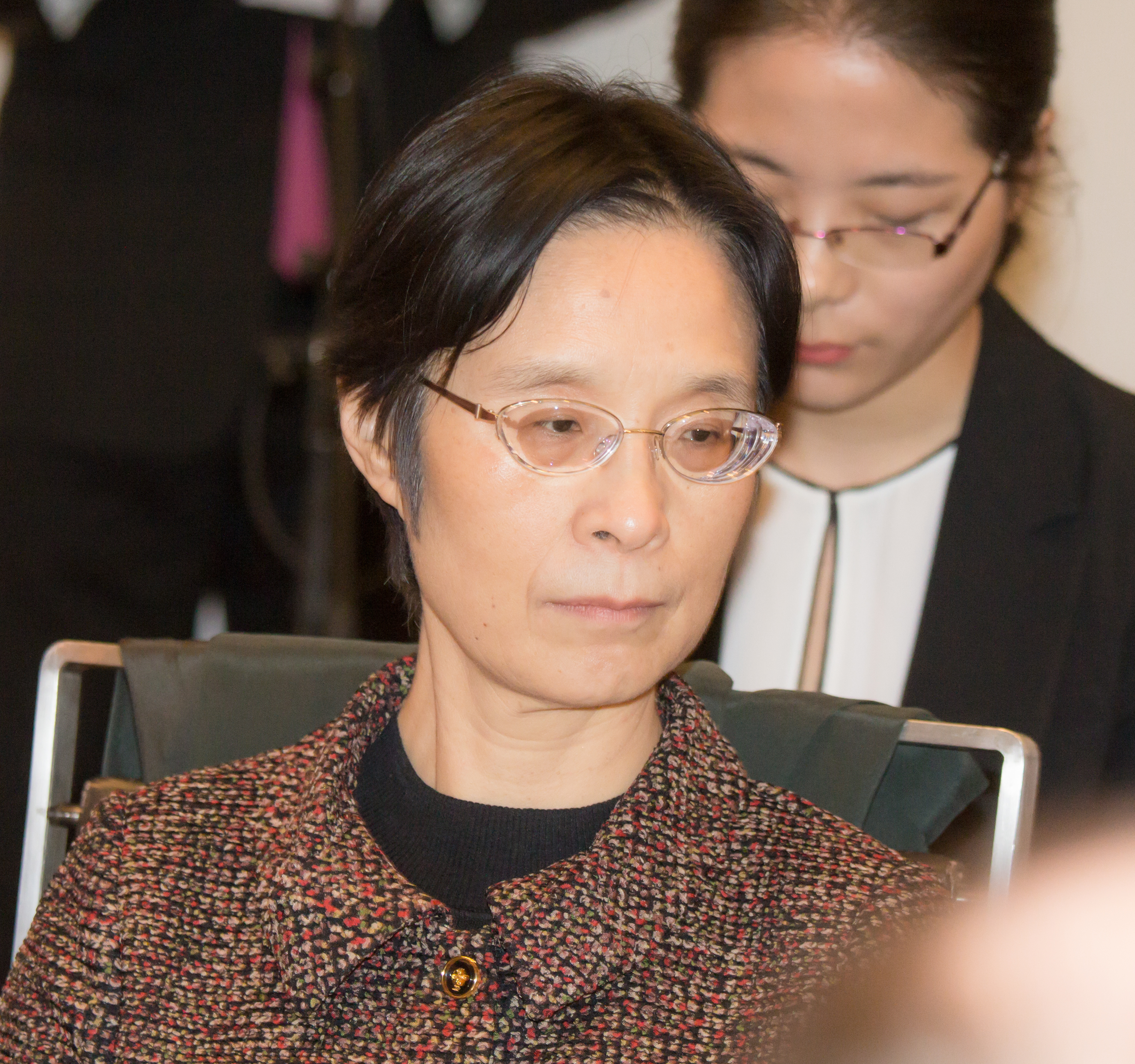 Jiang Xiaojuan (江小涓), Deputy Secretary-General, State Council. Reception in the Cologne town hall for Liu Yandong, Vice Premier of the People's Republic of China and her delegation.